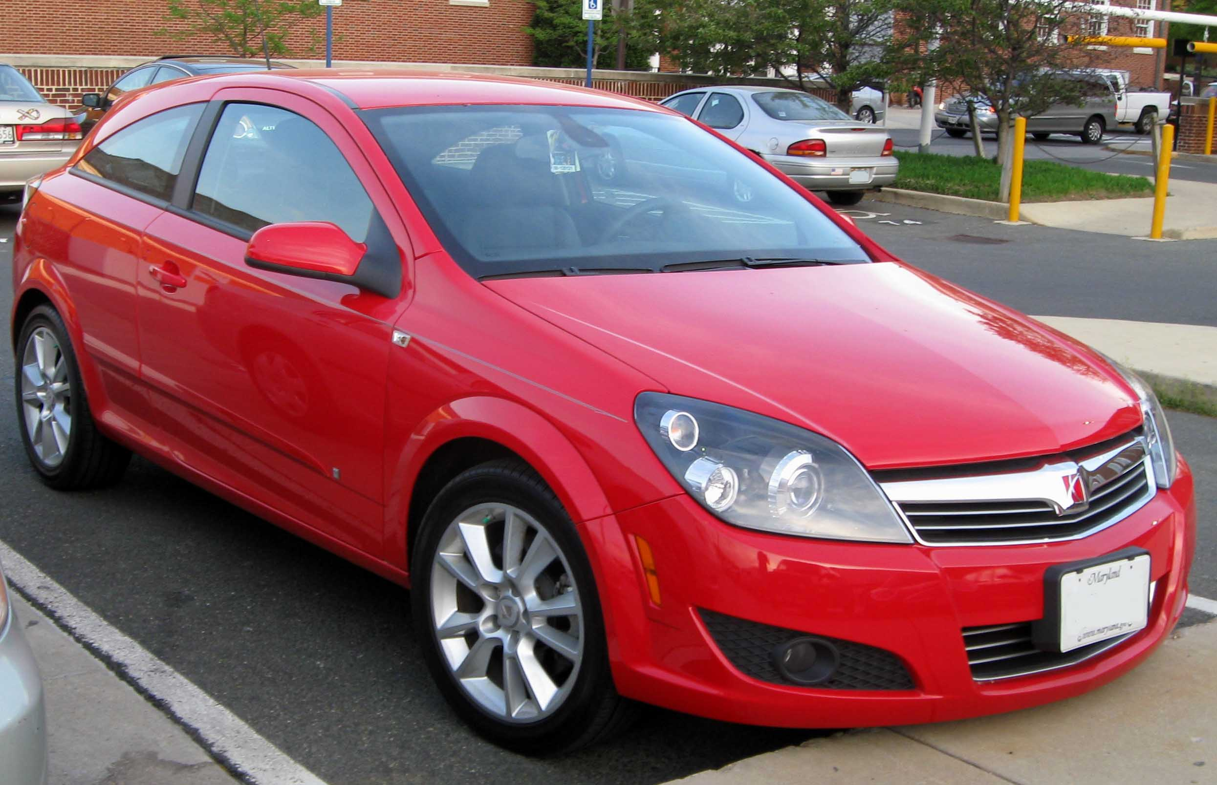 2008 Saturn Astra photographed in College Park, Maryland, USA.